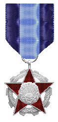 Order of Labour